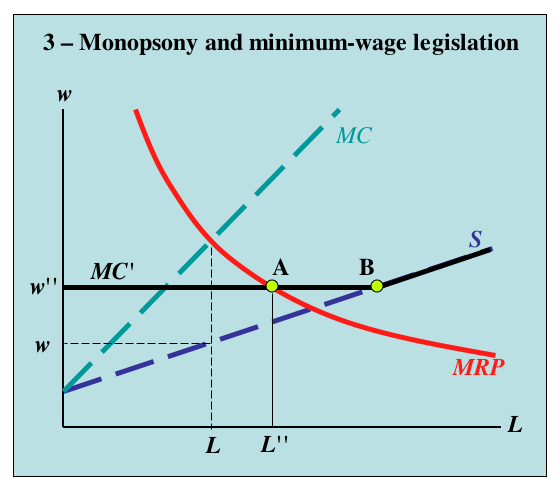 Monopsony and minimum wage This diagram has been made by me and I reserve no right on it. -- Mario 09:11, 5 August 2005 (UTC)